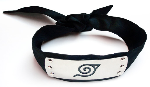 Naruto forehead cover. Edited in Photoshop.